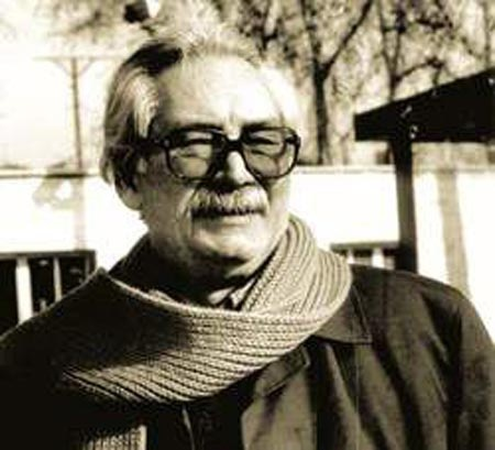 His face.